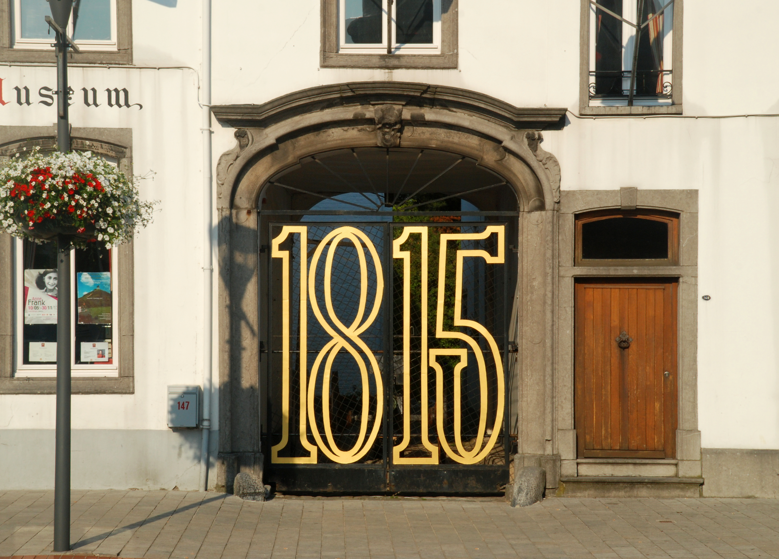 Belgium - Waterloo - Wellington Museum